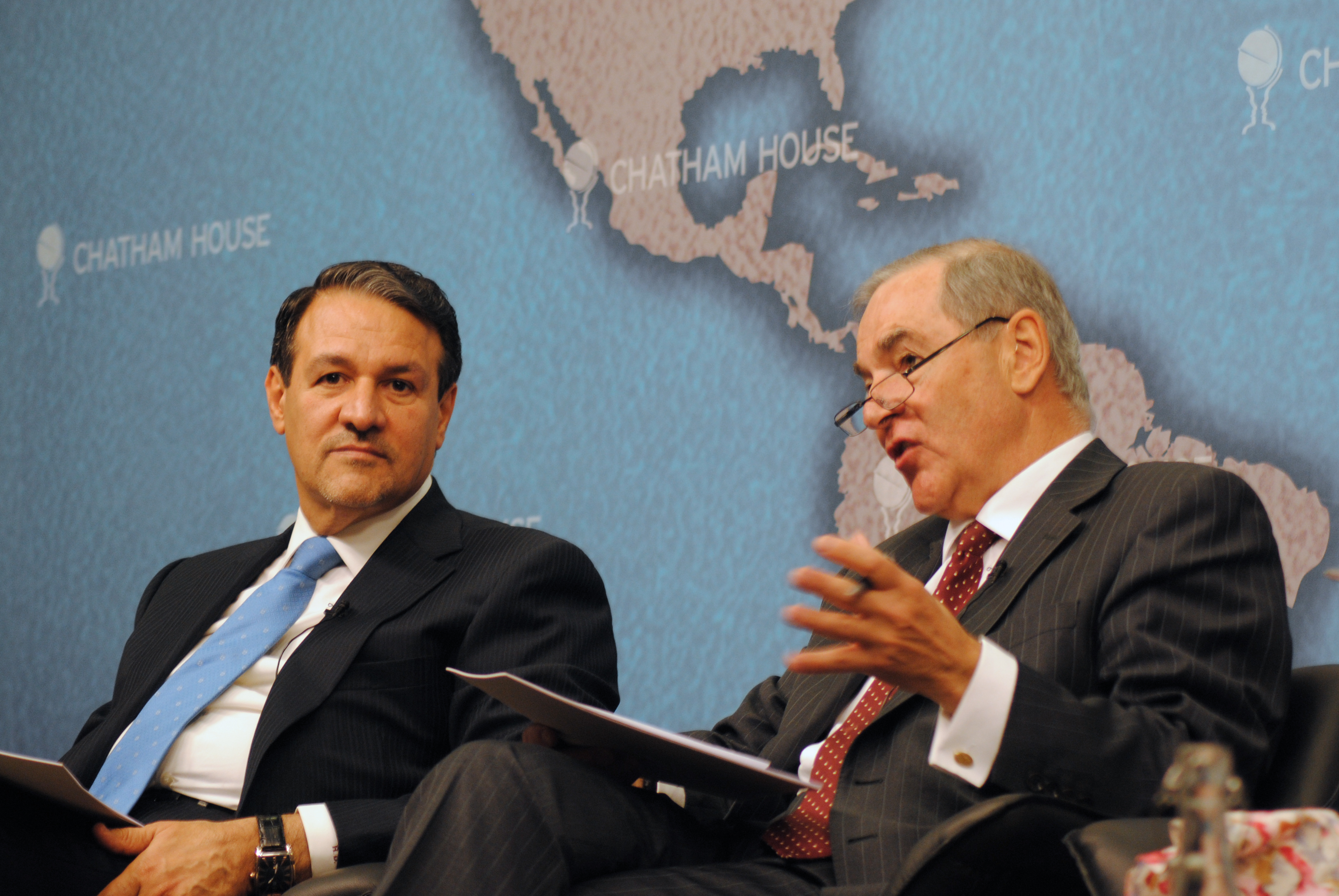 Iraq: Searching for Stability in an Unstable Region, 19 June 2012